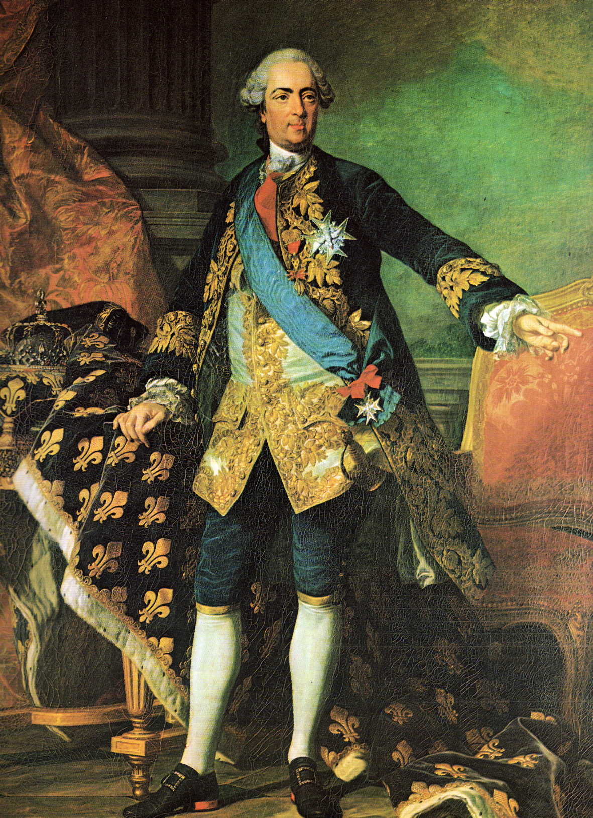 Portrait of Louis XV bearing the cross of the Order of the Holy Spirit